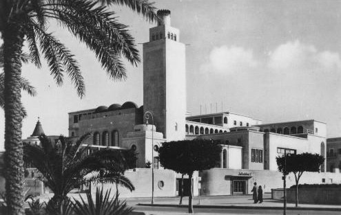 Hotel Casinò Uaddan in Tripoli, Libya on 1950s designed by the Italian colonial architect Florestano Di Fausto.